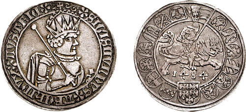 Austria, Hall Tyrol. Sigismund, as Archduke. 1439-1490. AR Half Guldiner (15.68 g, 10h). Dated 1484. + ` SIGISMVNDVS ` ARChIDVX ` AVSTRIE `, crowned and armored half length bust right, holding sceptre Mounted knight charging right, holding banner aloft; date below, all within circle of sixteen shields with coats-of-arms. Moeser & Dworschak 60; Frey 261; Grierson 453. "Sigismund's half guldiners and full guldiners of 1486 are regarded as the bridge between medieval and modern coinage. The types are reminiscent of medieval knighthood, but they represent the first crown-size silver coins to circulate in Europe. The increasing pulse of international trade in the late 15th century created a need for a large silver coin, and fresh discoveries of silver ore in the Alpine foothills provided the raw material for their production. Adding a prominent AD date merely served to highlight the change taking place in European coinage. A landmark in numismatic history."